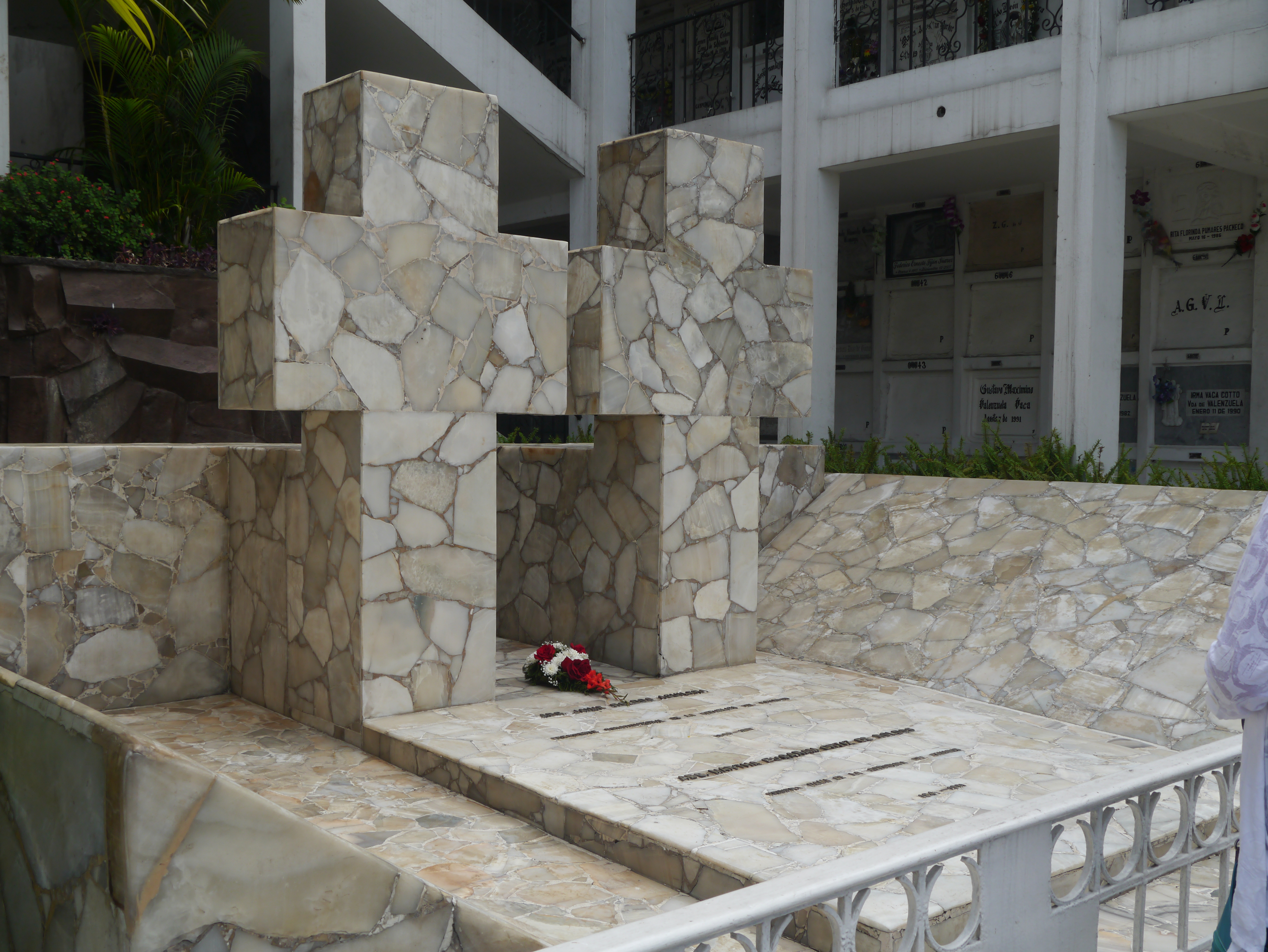 Ecuadorian ex president, Jaime Roldós Aguilera and his wife, Martha Bucaram's tomb, at Cementerio Patrimonial de Guayaquil.